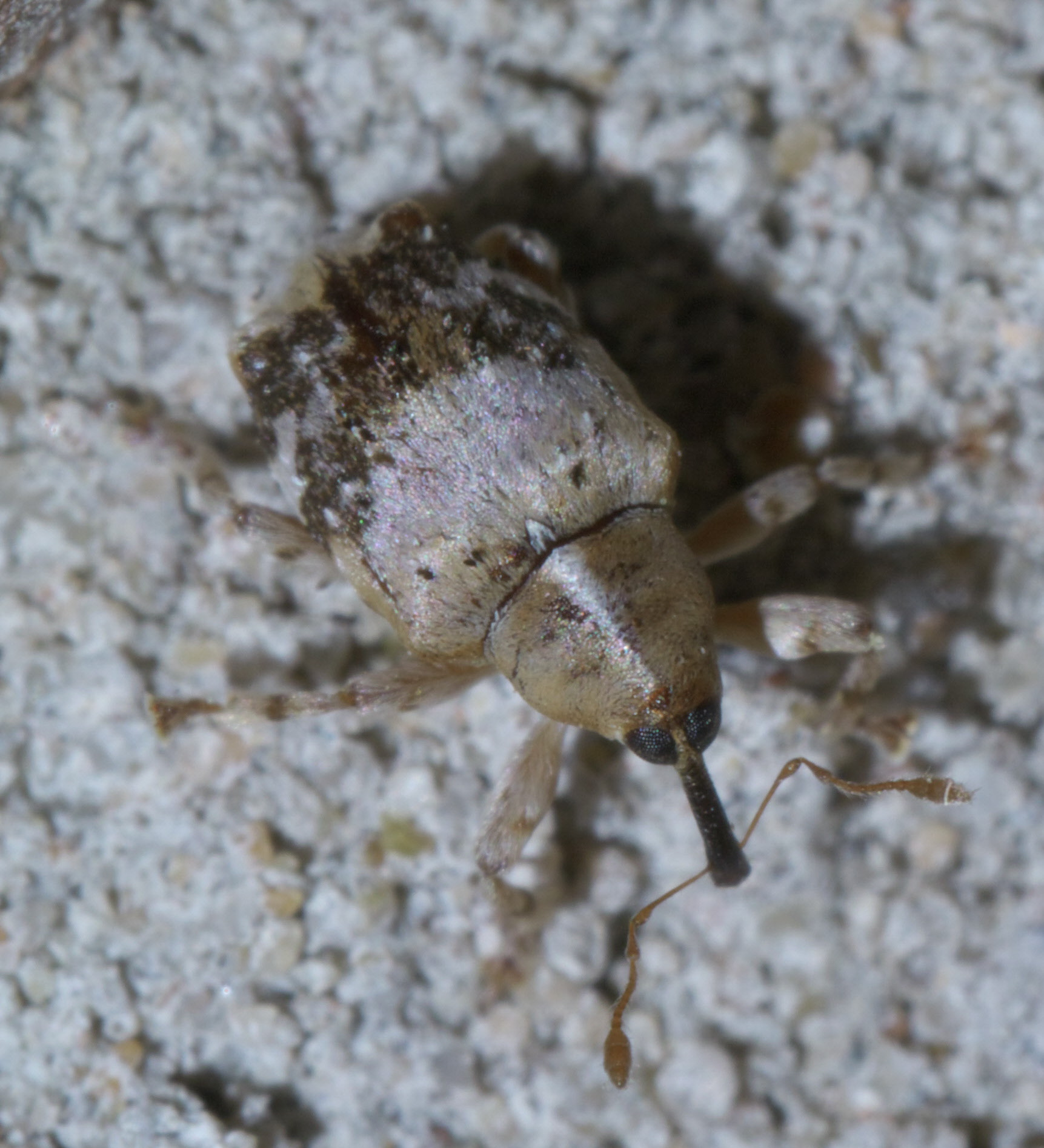 Lignyodes pallidus, Genus: Ash Seed Weevils, ID Confidence: 98